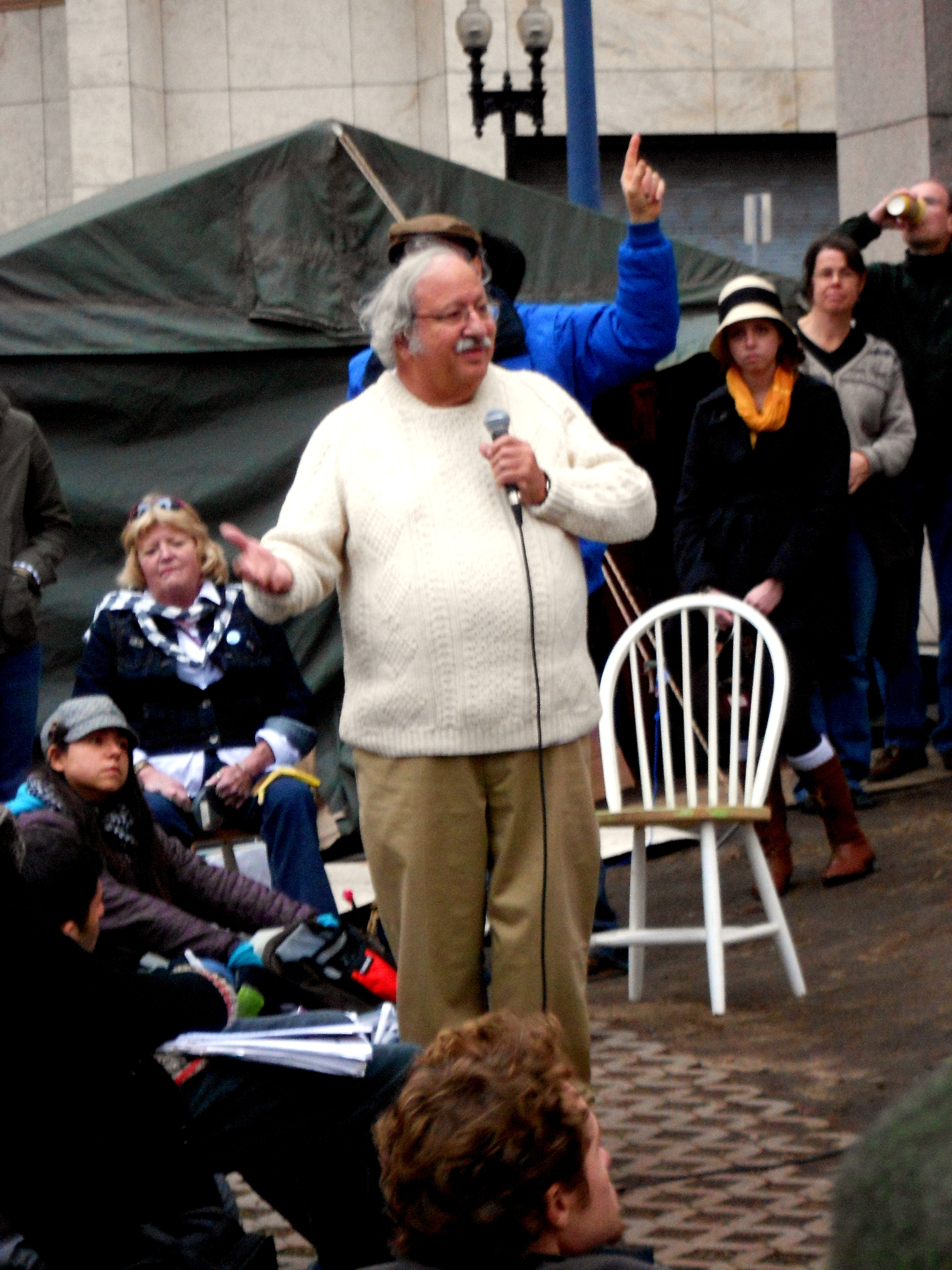 Professor Marshall Ganz speaking about movement organization at Occupy Boston